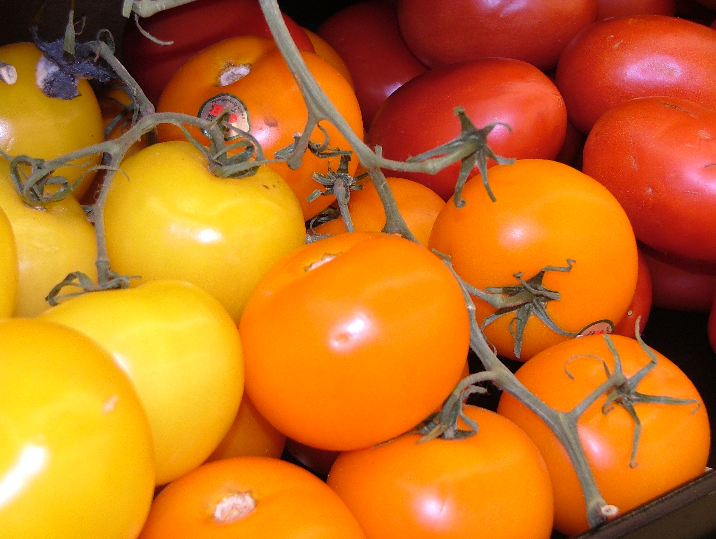 A photograph of red, yellow, and orange cherry tomatoes.